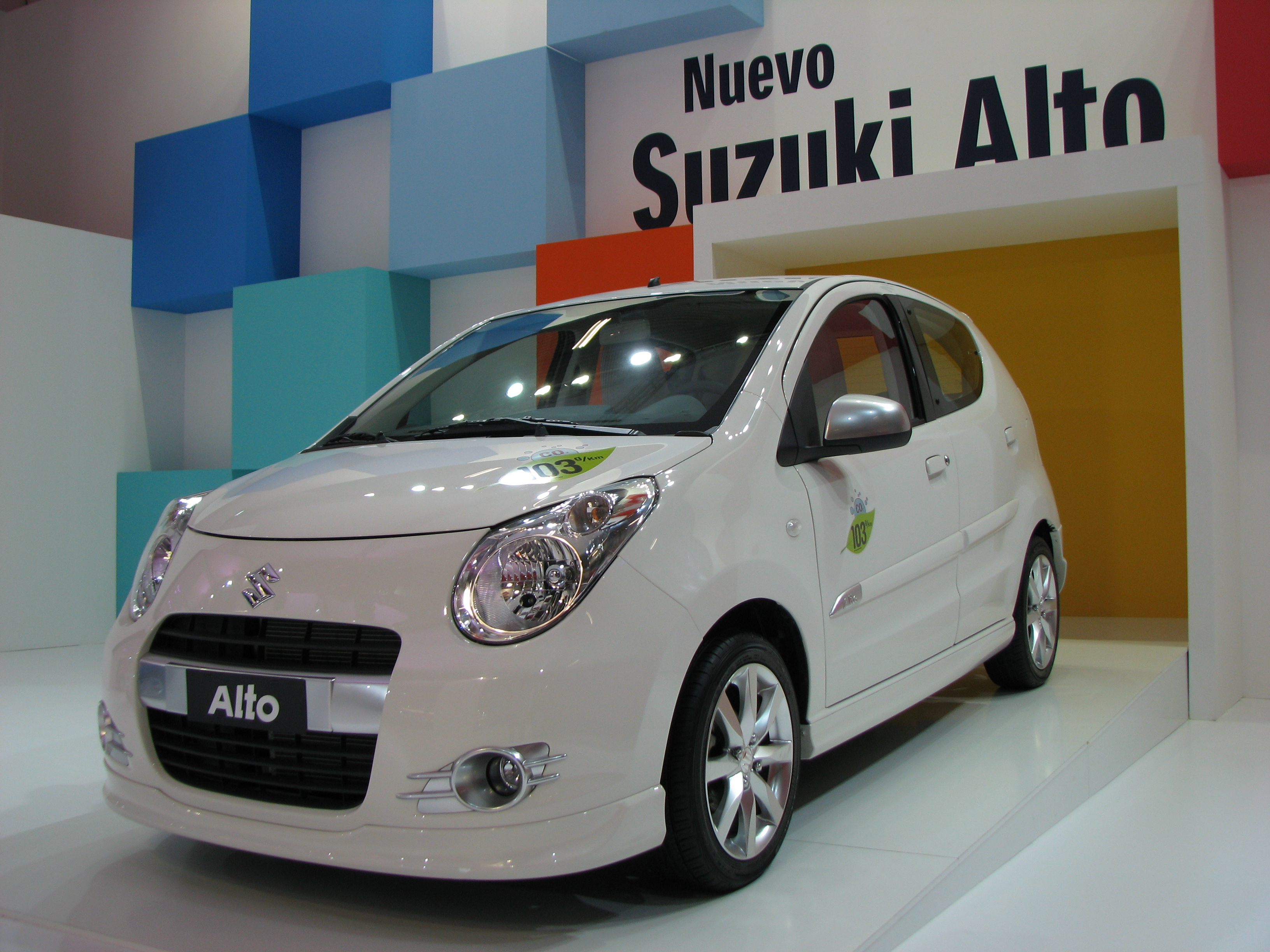 Suzuki Alto at 2009 Barcelona motorshow edition